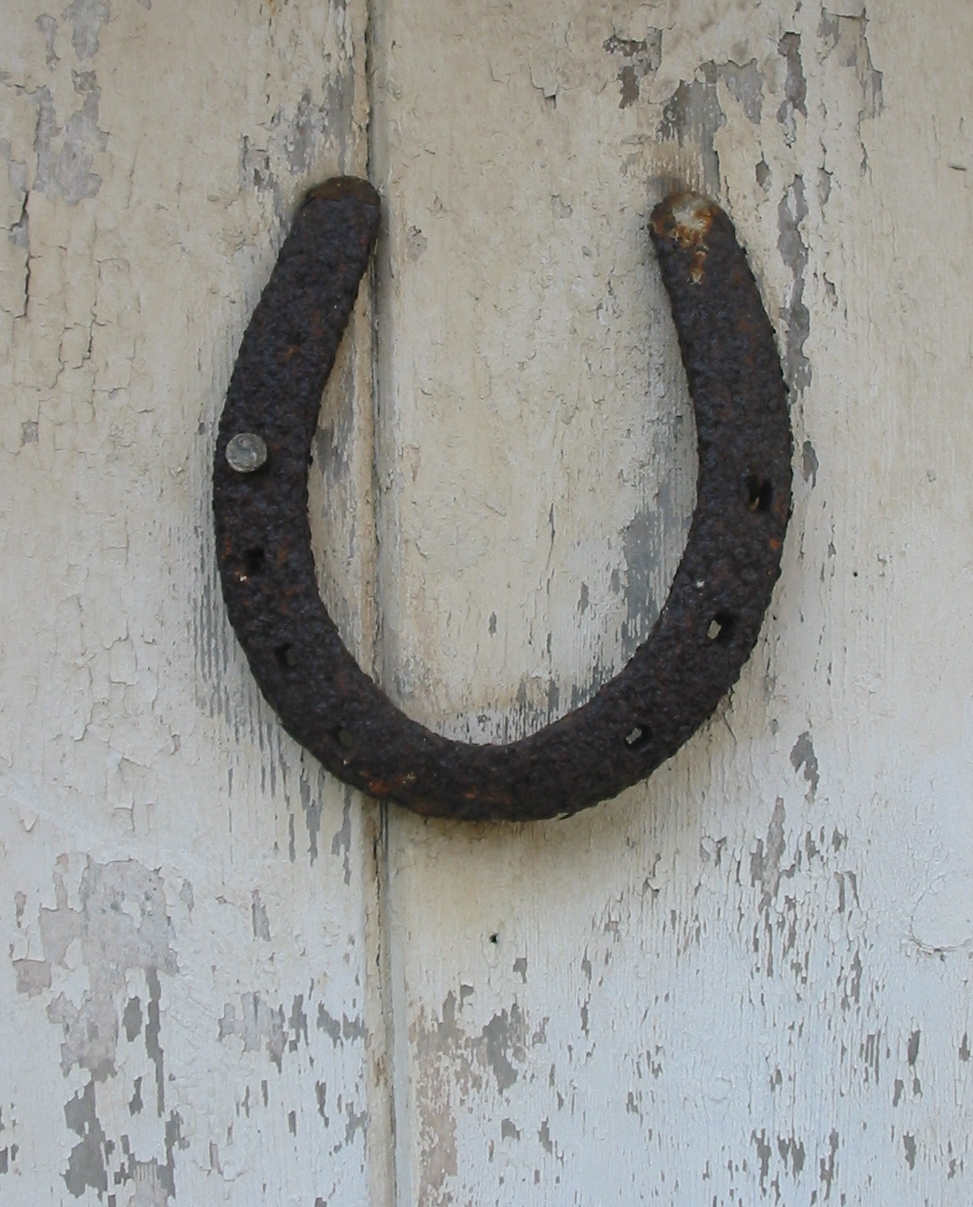 Horseshoe nailed to door for good luck Photo taken by Man vyi with Canon PowerShot A40 on 26/6/2005